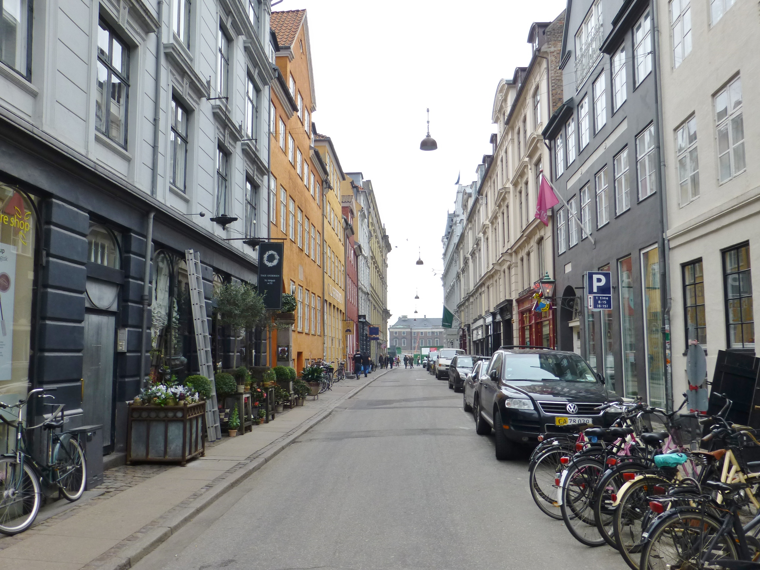 The street Ny Adelgade in Indre By in Copenhagen.